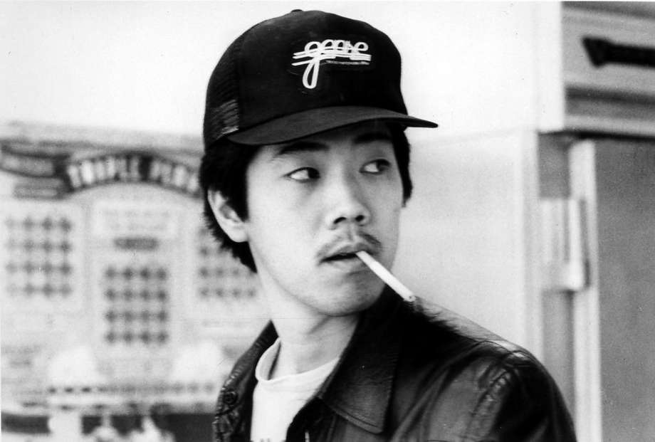 Actor Marc Hayashi on location in Wayne Wang's Chan Is Missing at Washington and Powell Streets in San Francisco's Chinatown, 1981. Photo by Nancy Wong